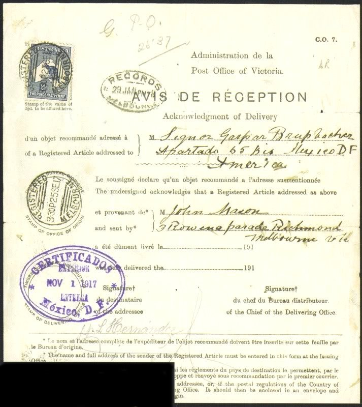 2½p Indigo stamp of Australia tied to Avis de Reception (acknowledgement of receipt) form by clear "Registered/3: .17/Melbourne" c.d.s., for a registered letter sent to Mexico where violet oval November 1, 1917 Mexican handstamp was applied. (part only scanned)